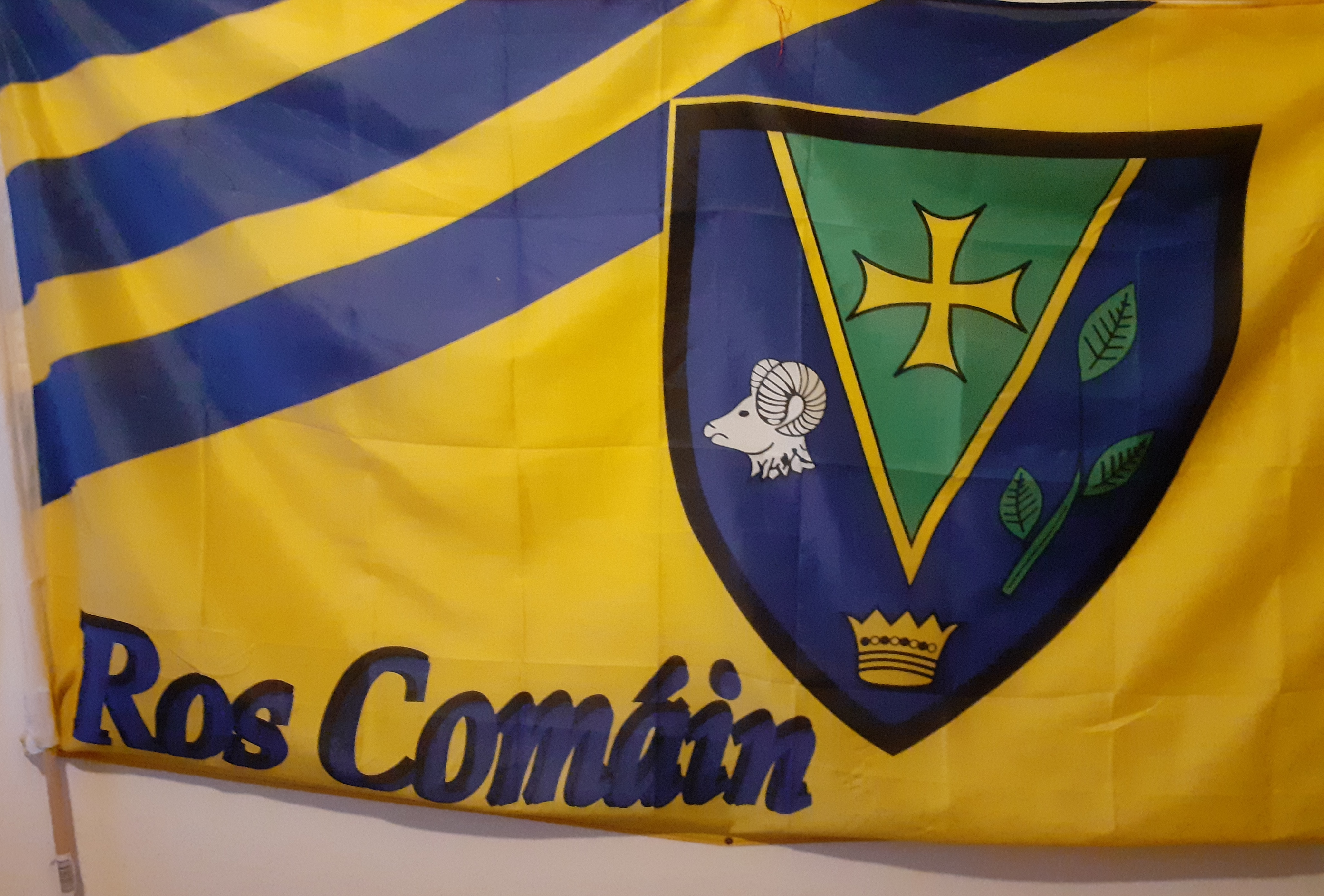 Roscommon flag.